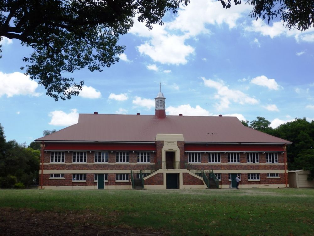 Brick Infants’ School Building, Block L; view from south (EHP, 2016)